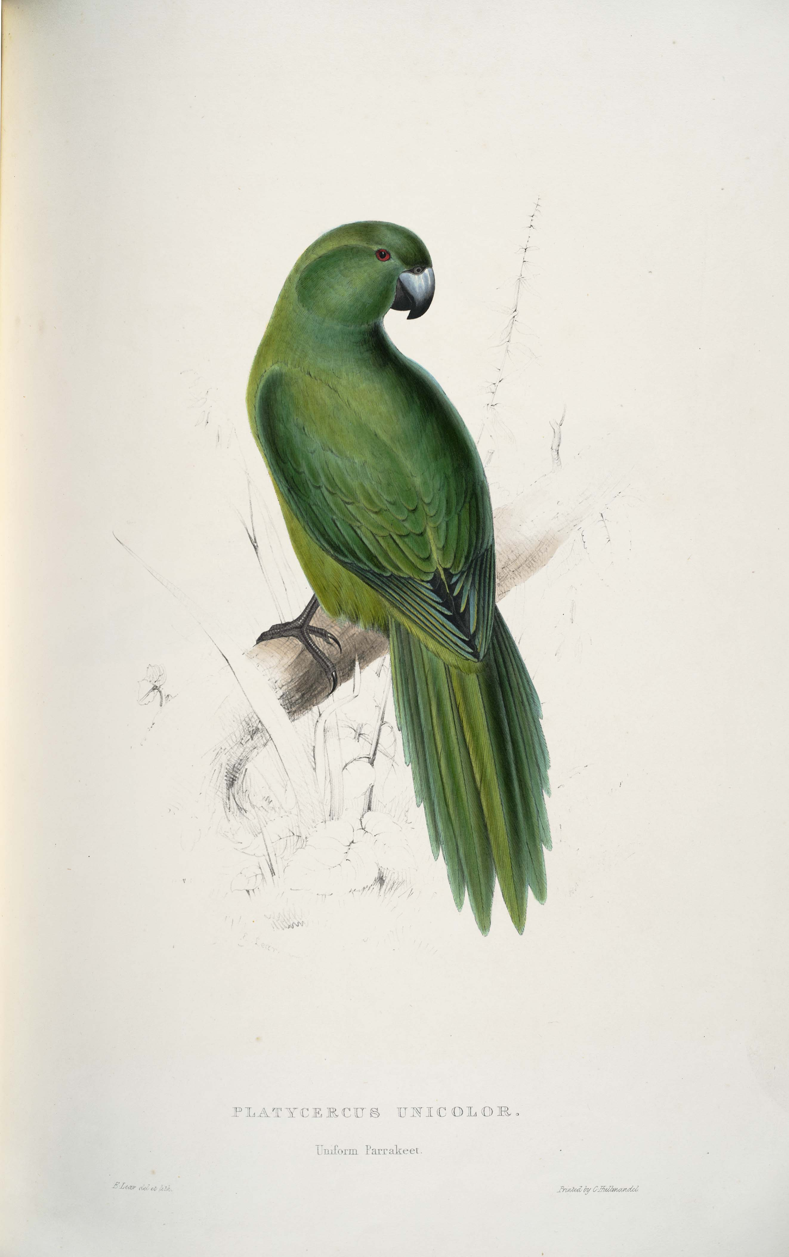 A painting of Antipodes Parakeet, also known as Antipodes Island Parakeet, (originally captioned "Platycercus unicolor Uniform Parrakeet") by Edward Lear 1812-1888.